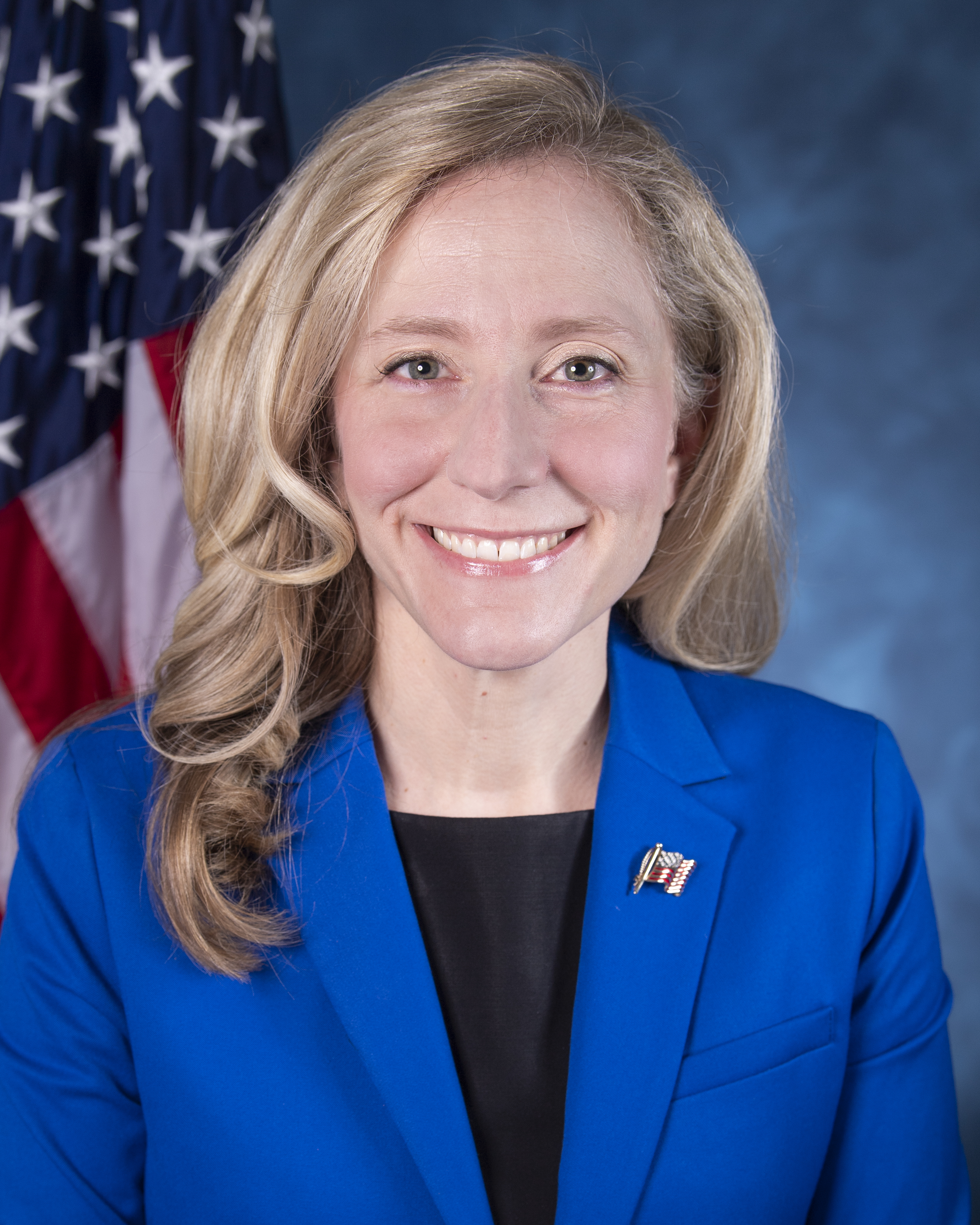 Abigail Spanberger, member of the United States House of Representatives from Virginia.